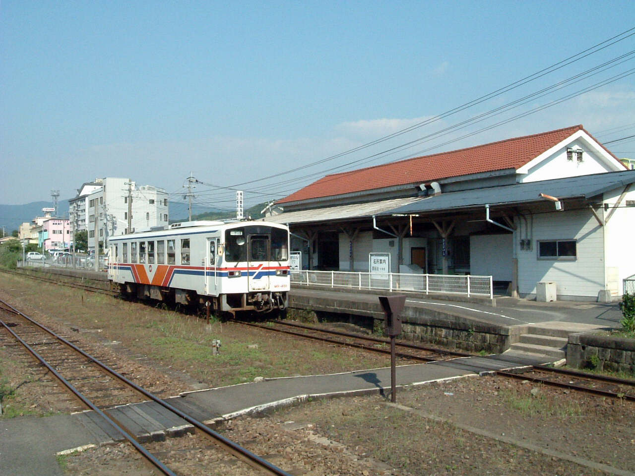 松浦鉄道左石駅ホーム(Platform of Matsuura Railway Hidariishi Station)